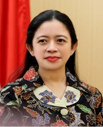 Coordinating Minister for Human Development and Cultural Affairs: Puan Maharani